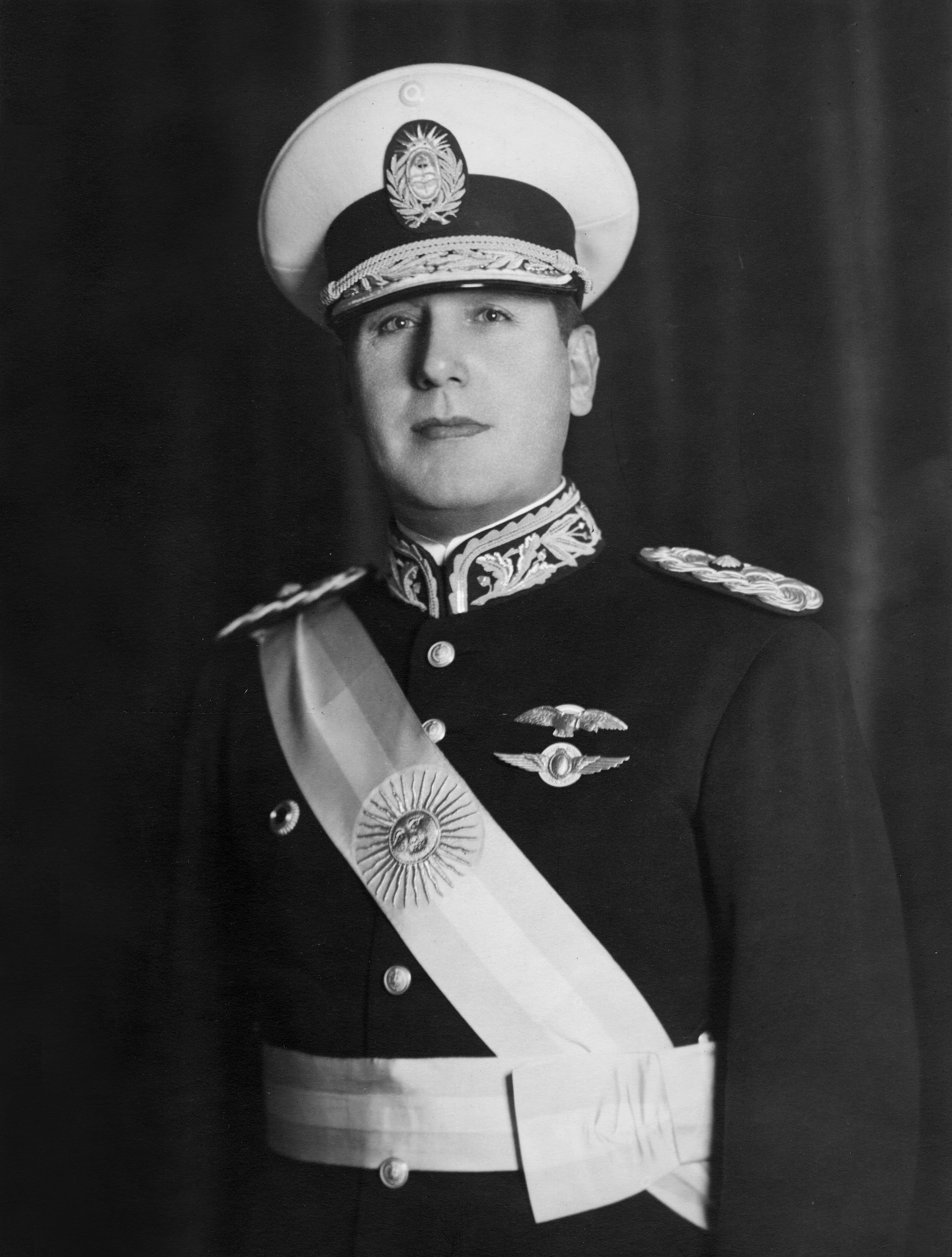 Photographical portrait of General Juan Domingo Perón This is a retouched picture, which means that it has been digitally altered from its original version. Modifications: Minor background imperfection and colour fixes using Photoshop CS6..